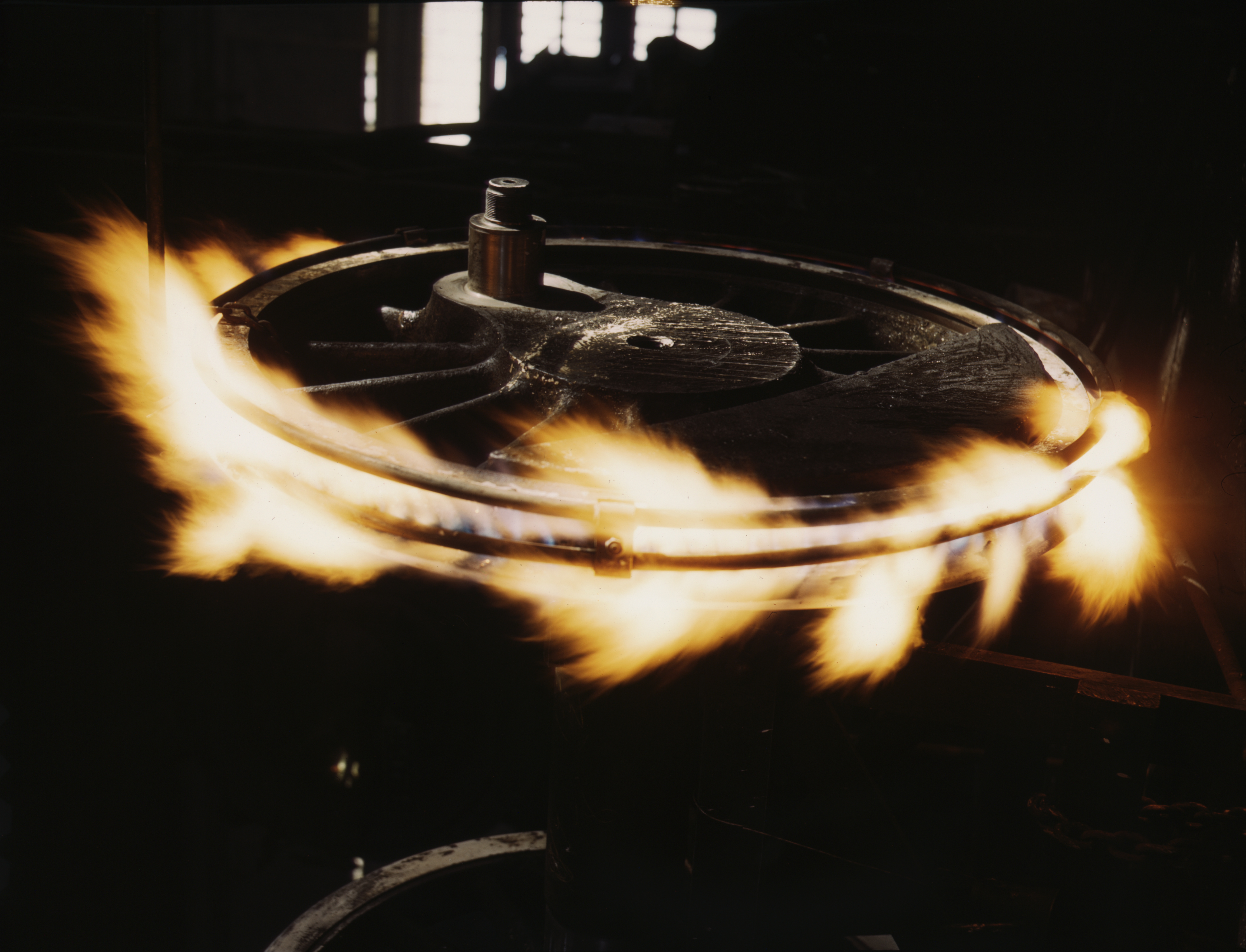 Retiring a locomotive driver wheel, Shopton, Iowa. The tire is heated by means of gas until it can be slipped over the wheel. Contraction on cooling will hold it firmly in place. Santa Fe R.R.